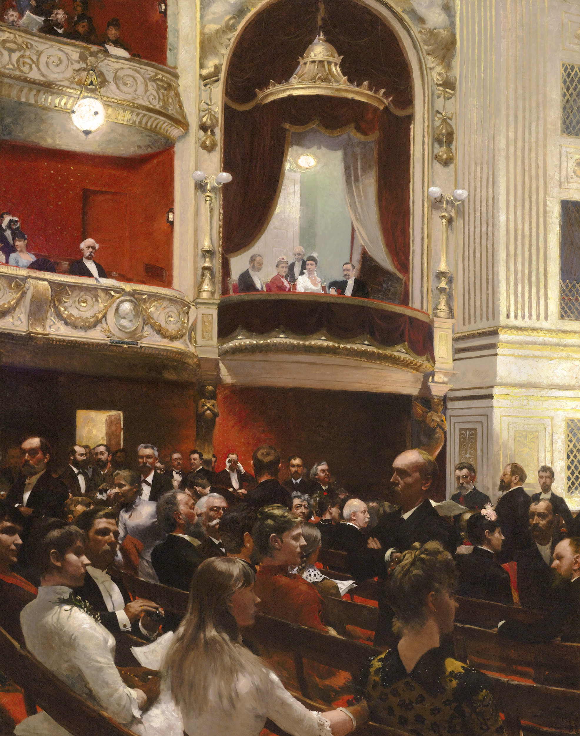 An Evening at the Royal Theatre by Paul Gustav Fischer. Oil on canvas. Dated 1887-88